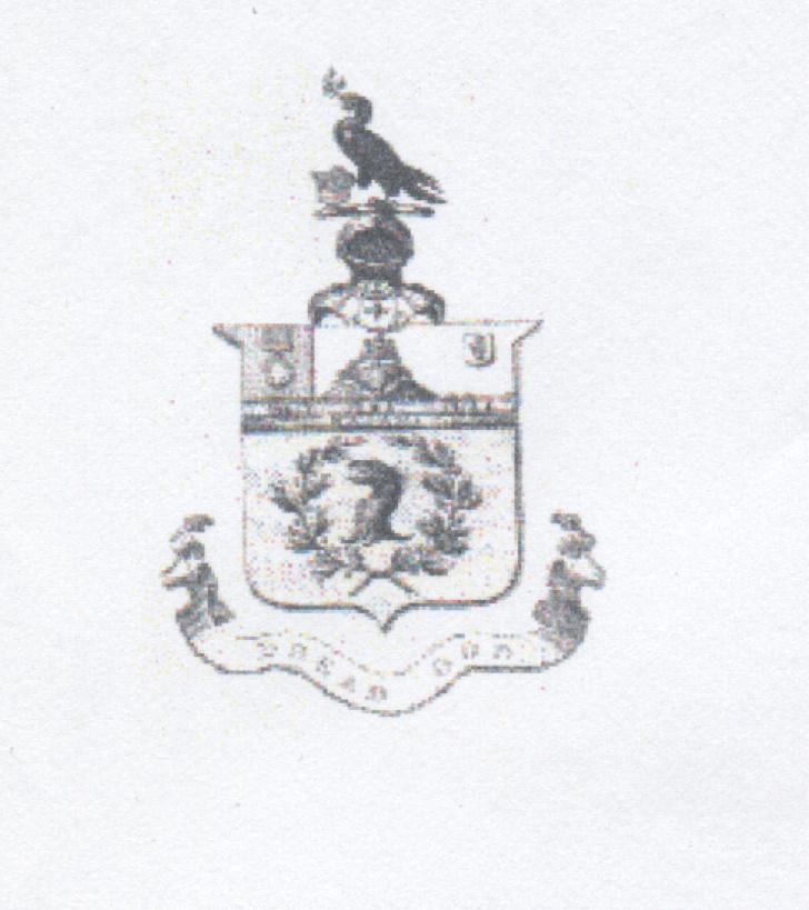 Registered coat of arms of the Munro of Linderits family